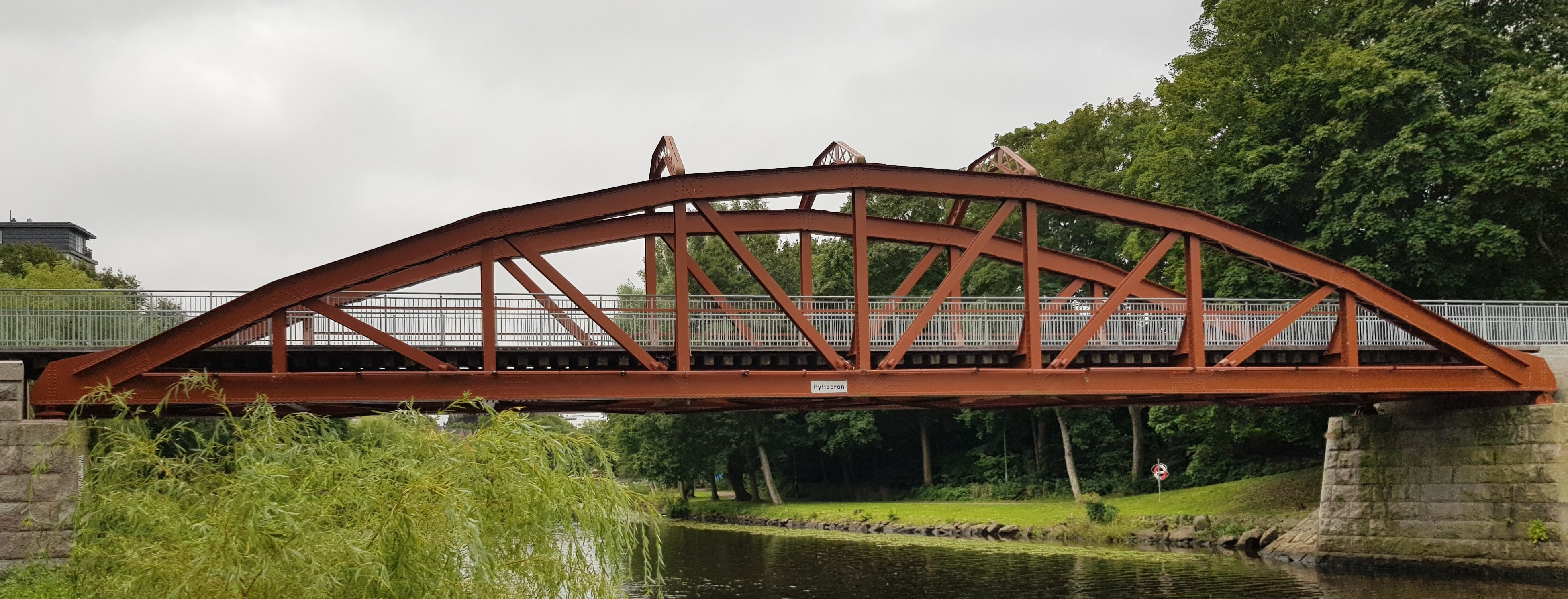 Pyttebron in Ängelholm, Sweden.